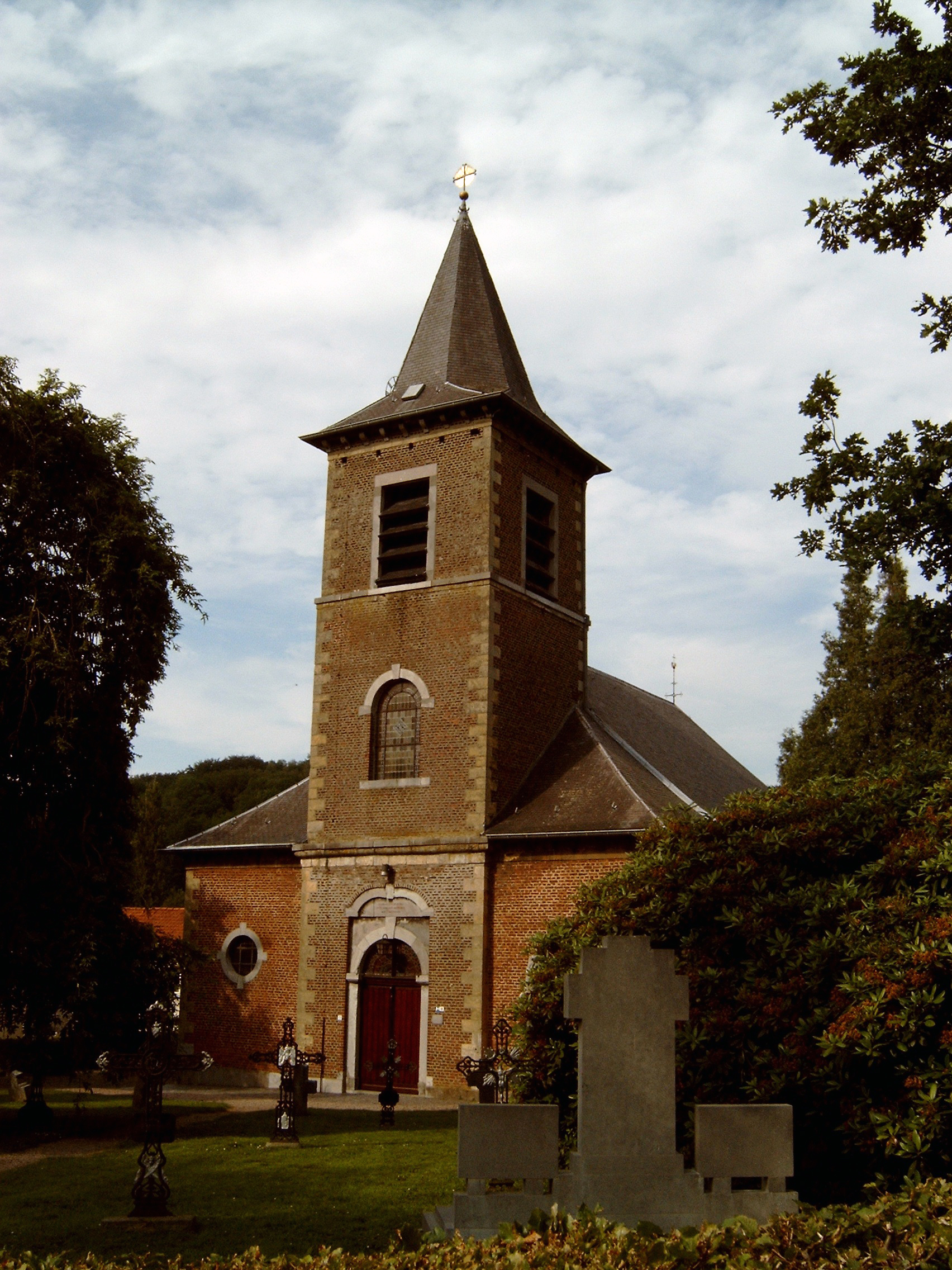 Slenaken, church